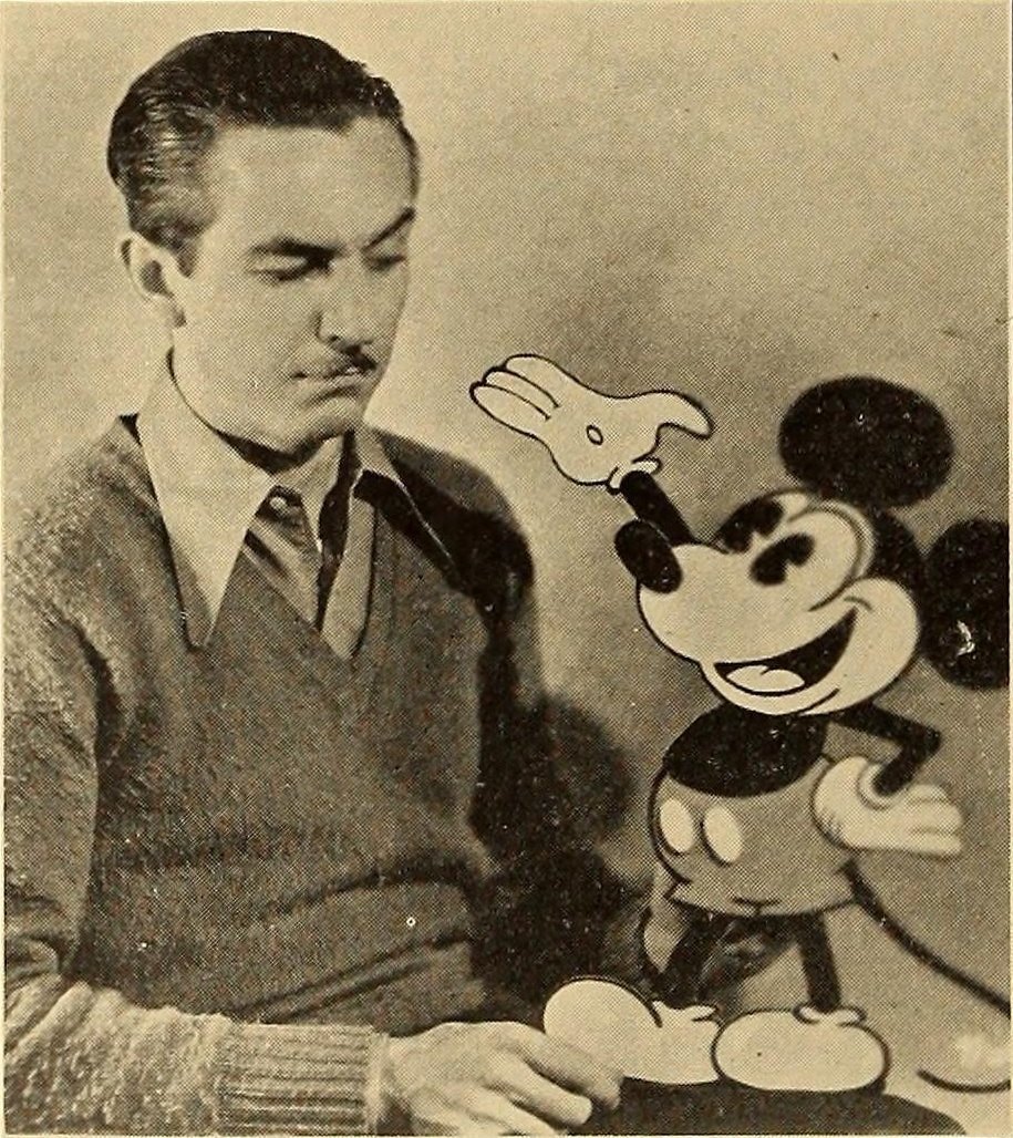 Walt Disney and his cartoon creation "Mickey Mouse"